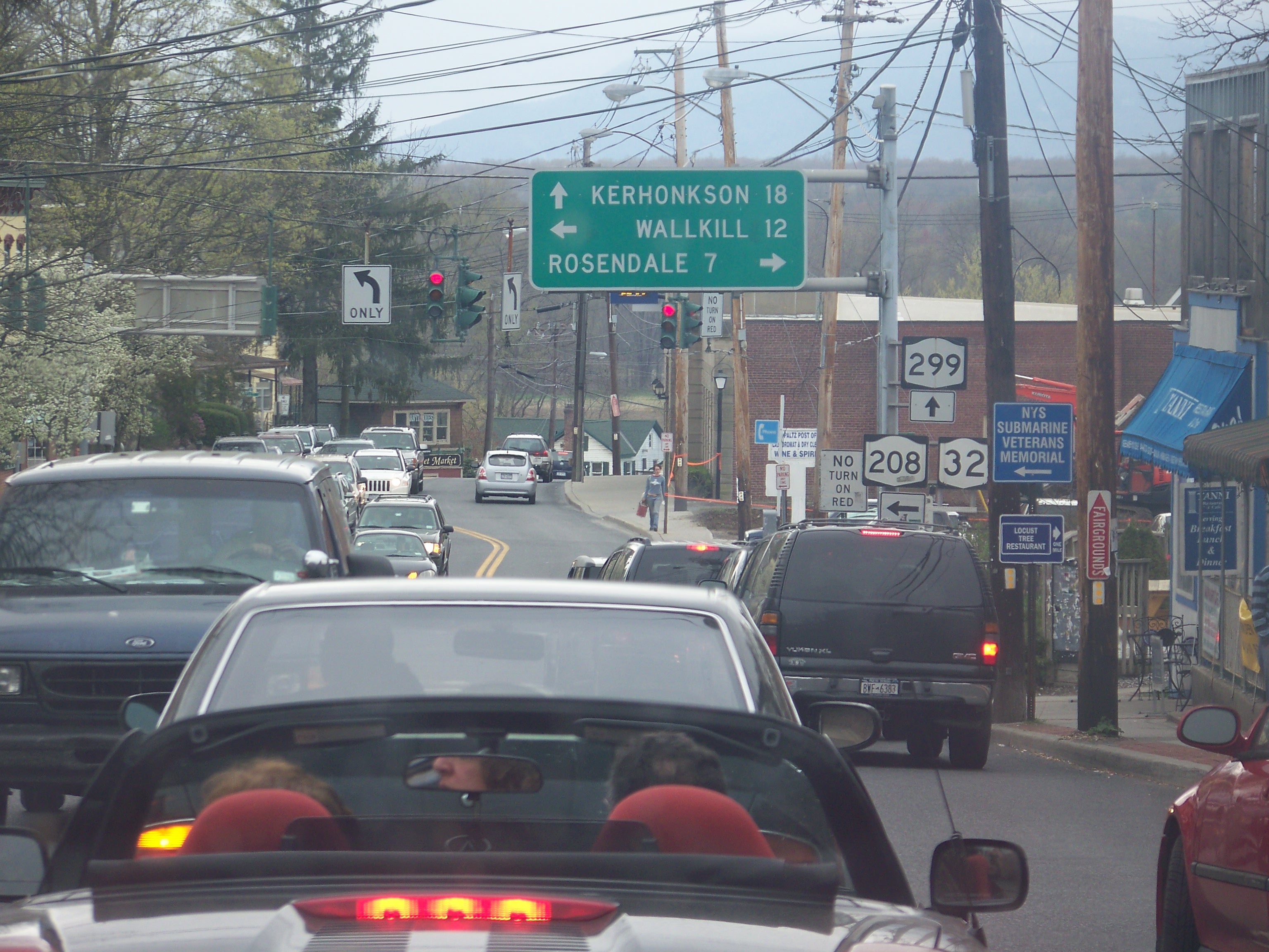 Intersection with NY 32, NY 299 and NY 208